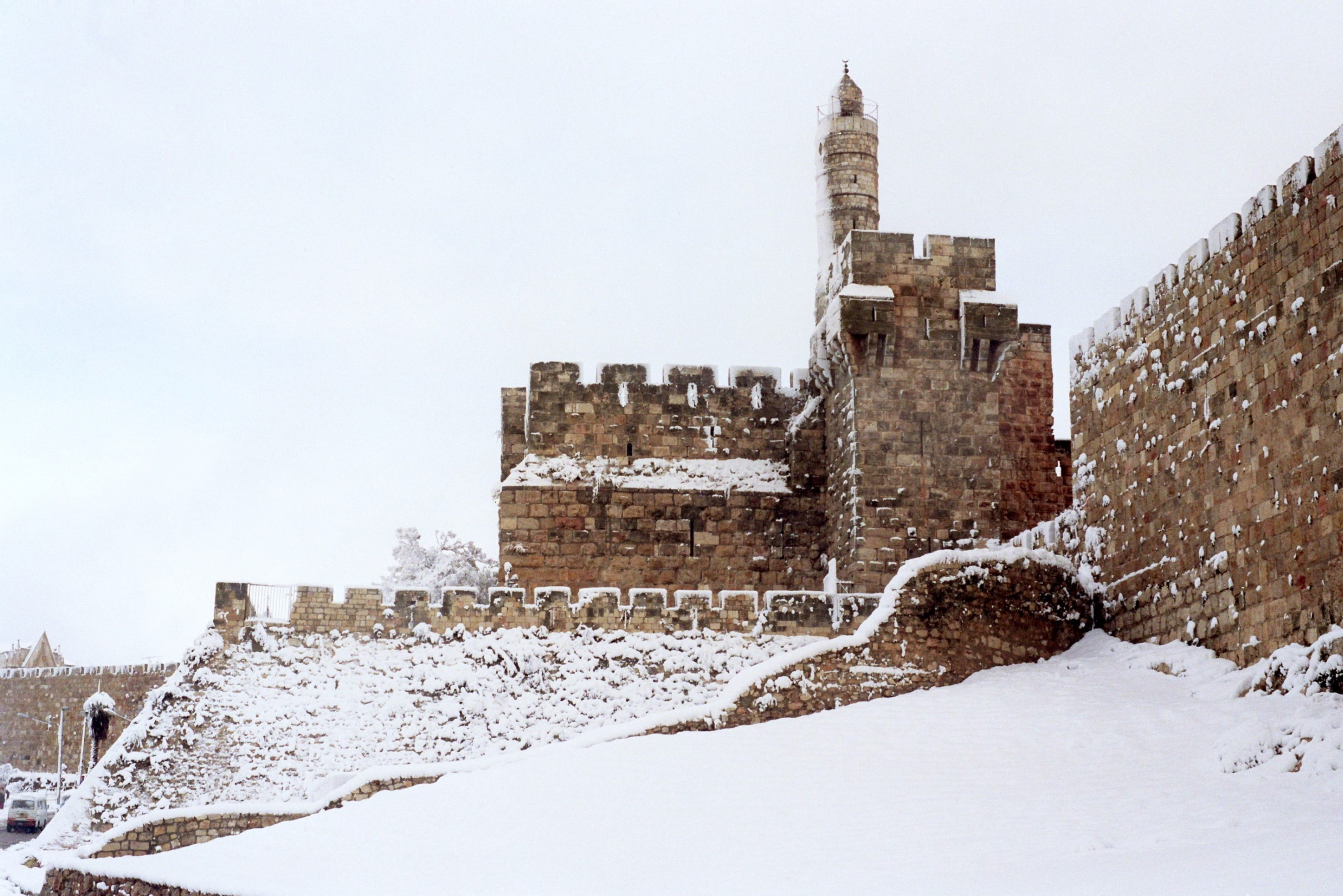 David's citadel in the snow of 1992